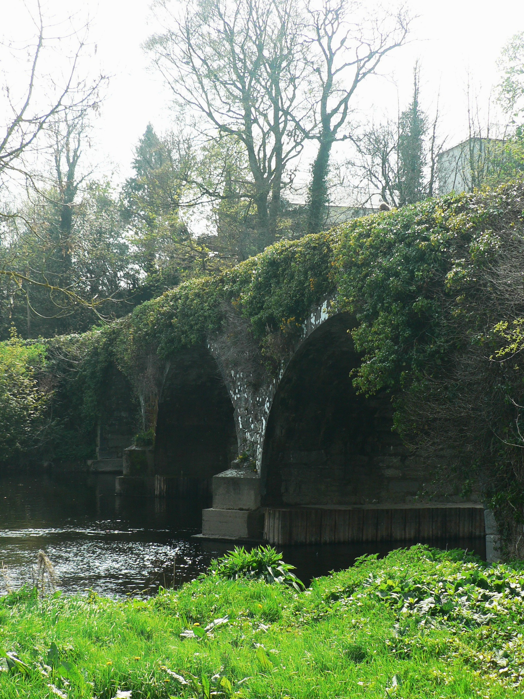 Photo of the stone road bridge at Killavullen, Co. Cork, over the River Blackwater. The roof of Ballymacmoy House can be seen in the background.